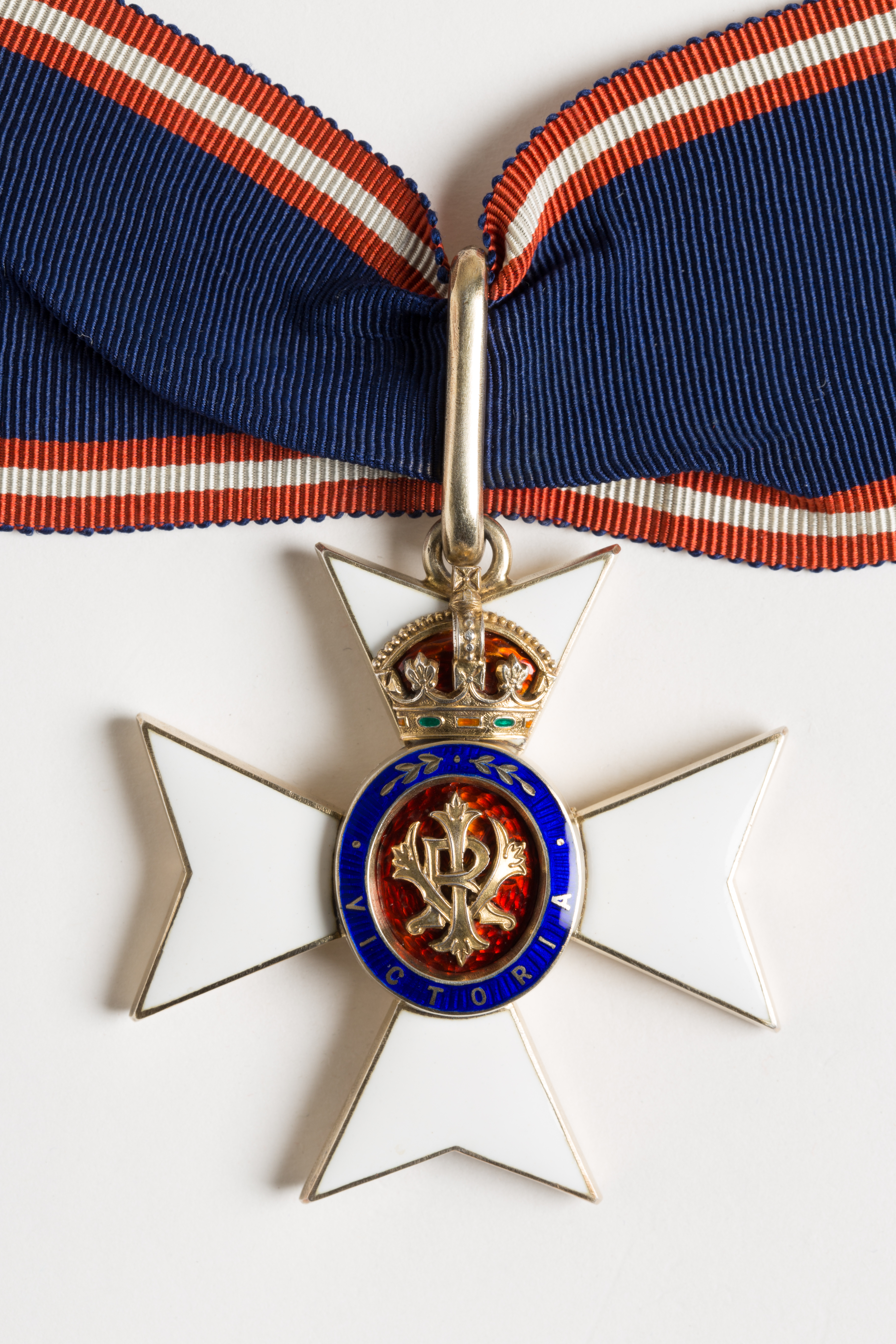 The Royal Victorian Order - Commander - CVO - neck badge Awarded to David Fouhy silver and enamel Maltese cross, ring suspension, with neck ribbon obverse- white enamel limbs of cross, central oval medallion with red enamel ground, royal cypher in gold- VRI, blue border around with legend- VICTORIA, enamel crown in top limb of cross reverse- plain markings- reverse- C1191 ribbon- grosgrain, 32mm wide, dark blue with stripes at either edge of red, white, red